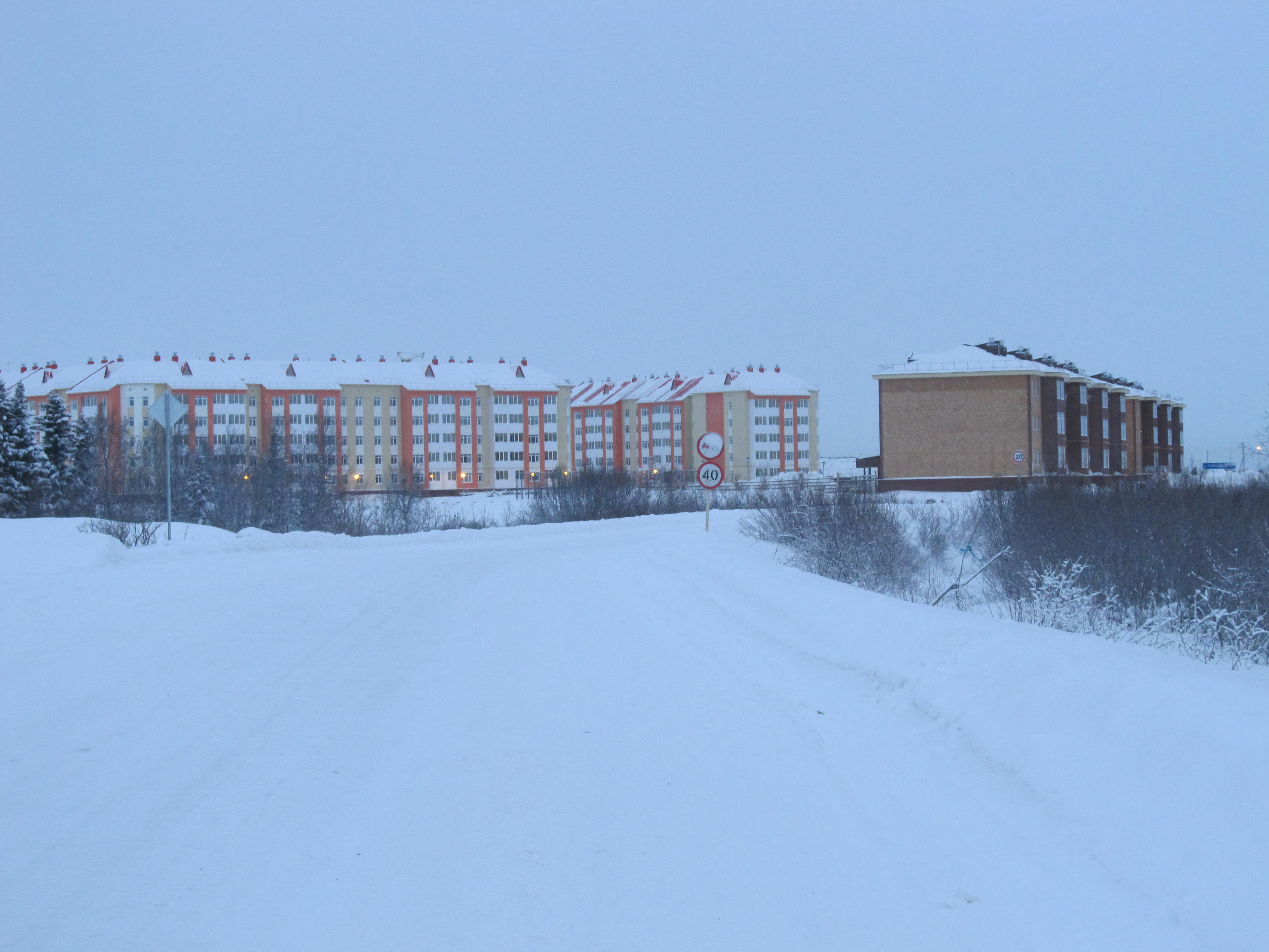 Polar night in Naryan-Mar, Russia. December 23, 2014, 11:27 (noon)